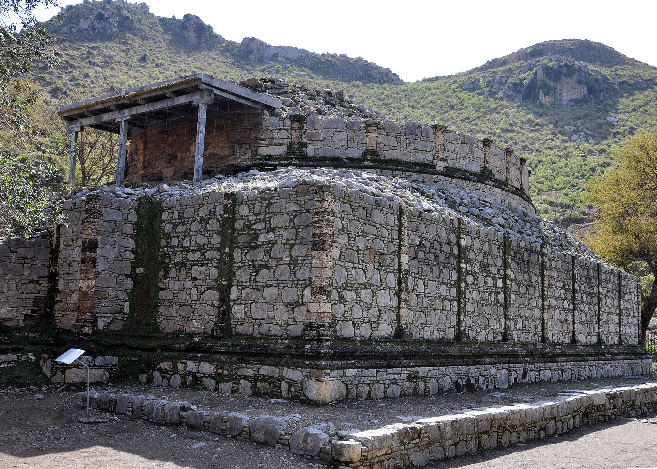 Piplan site (Taxila) This is a photo of a monument in Pakistan identified as the KPK-16